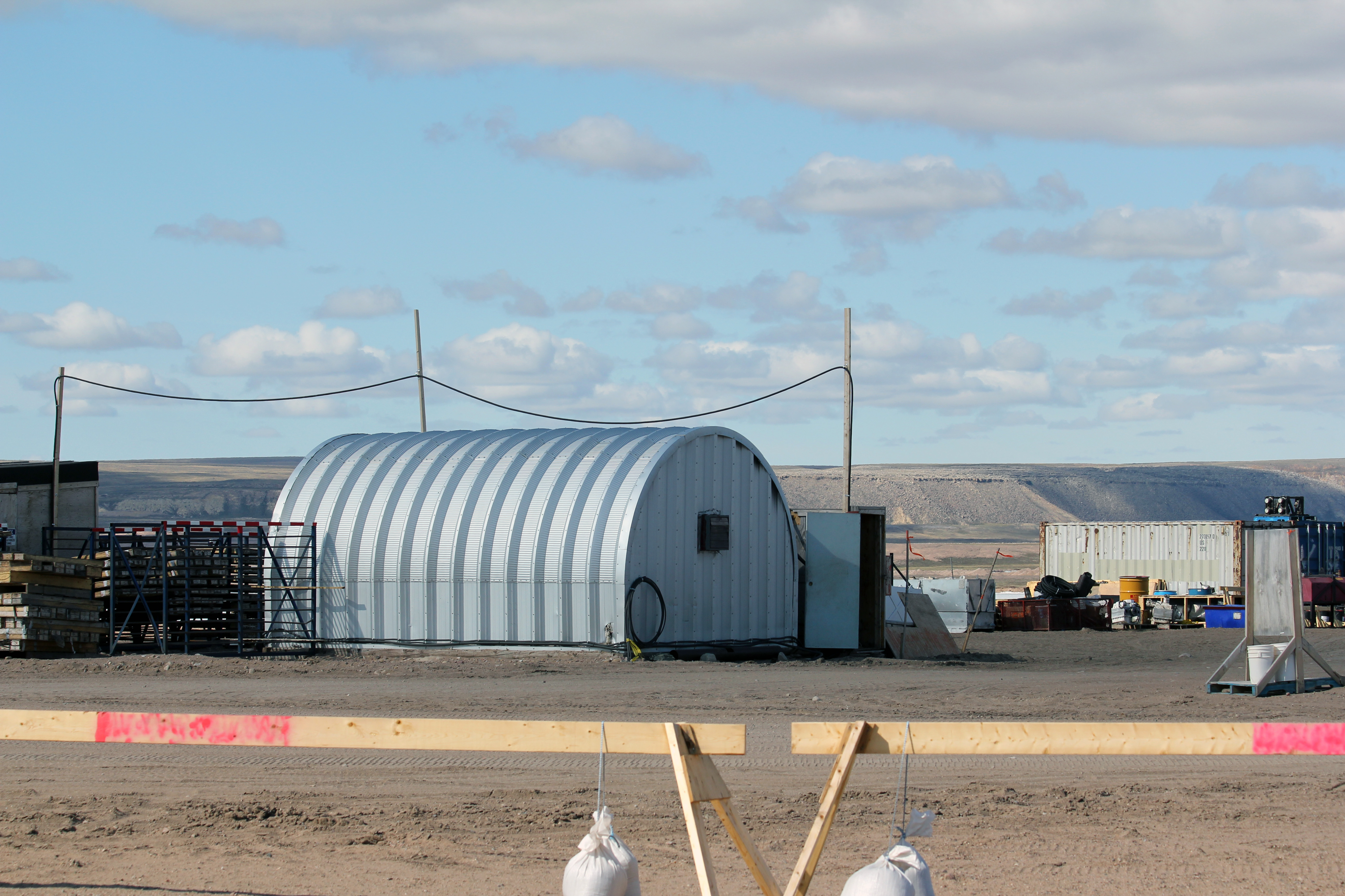 The geology shack